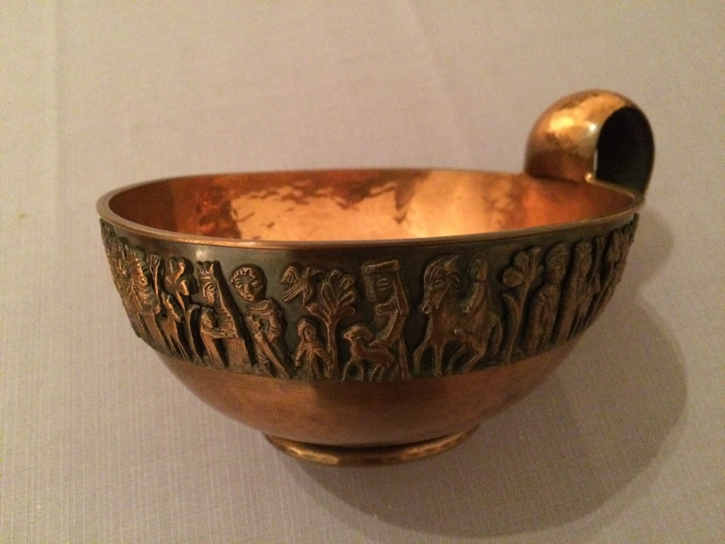 Margit Tevan